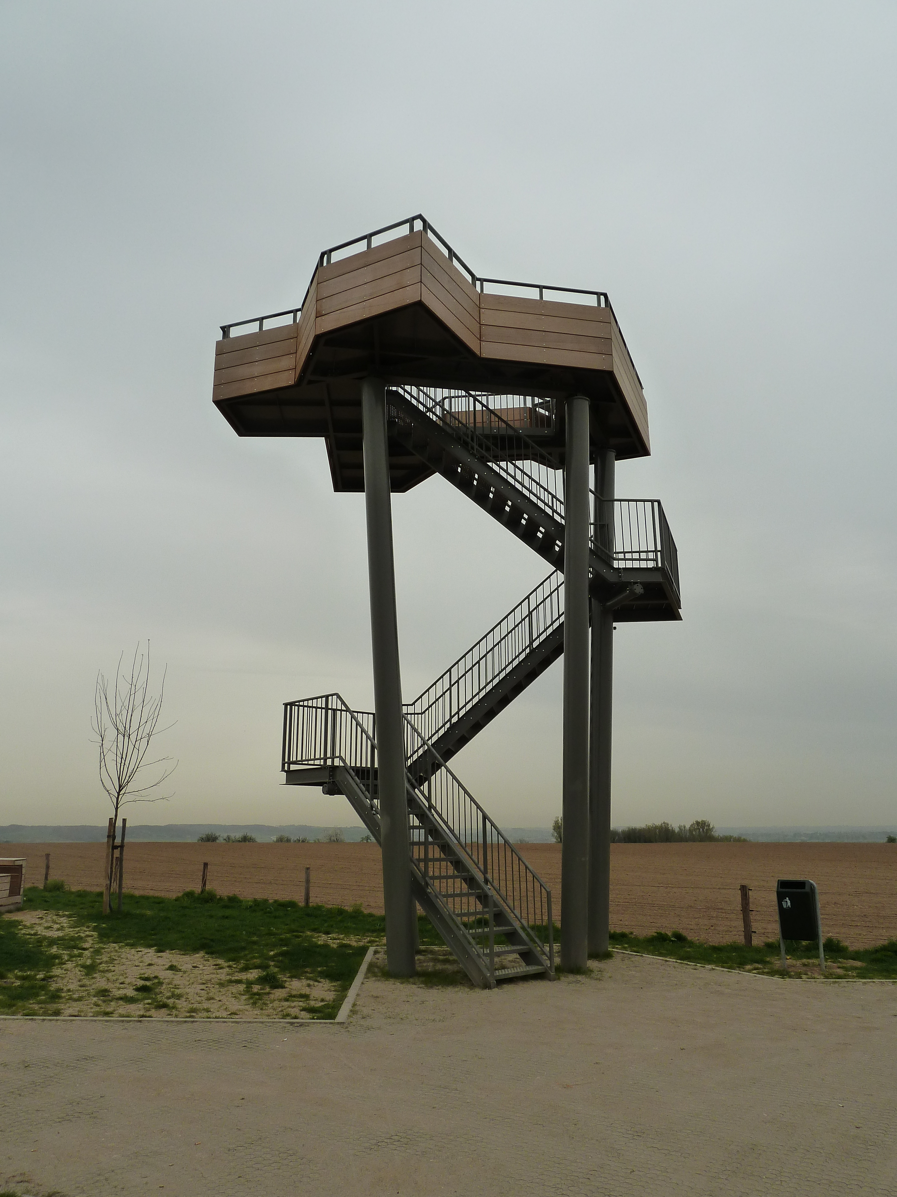 Observation tower between Mesch and Moerslag, Limburg, the Netherlands